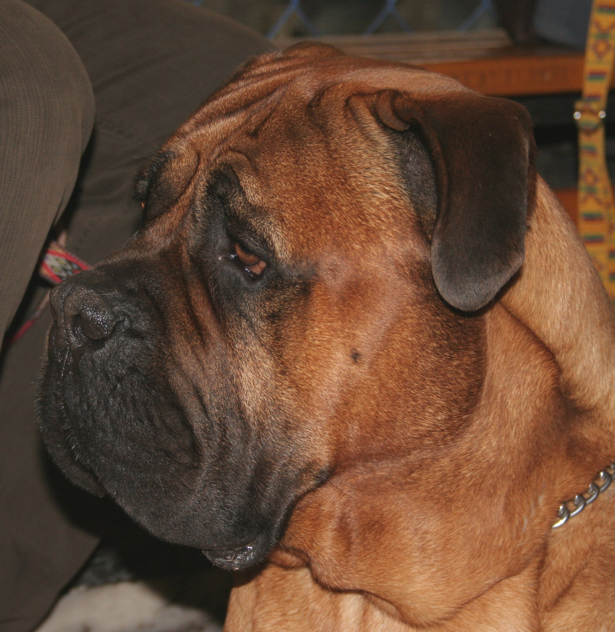 Bullmastiff during dogs show in Katowice, Poland